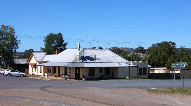 Australian country hotel (pub = Public House), Dalton, New South Wales. I took this picture. Peter Ellis 21:09, 22 Apr 2005 (UTC)